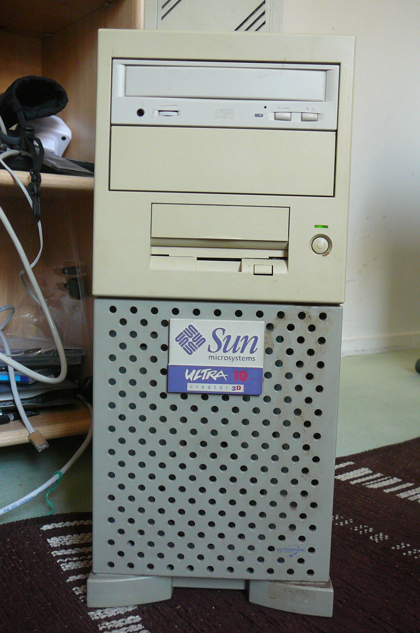 A workstation Sun Ultra10 (UltraSparc processor), front view.